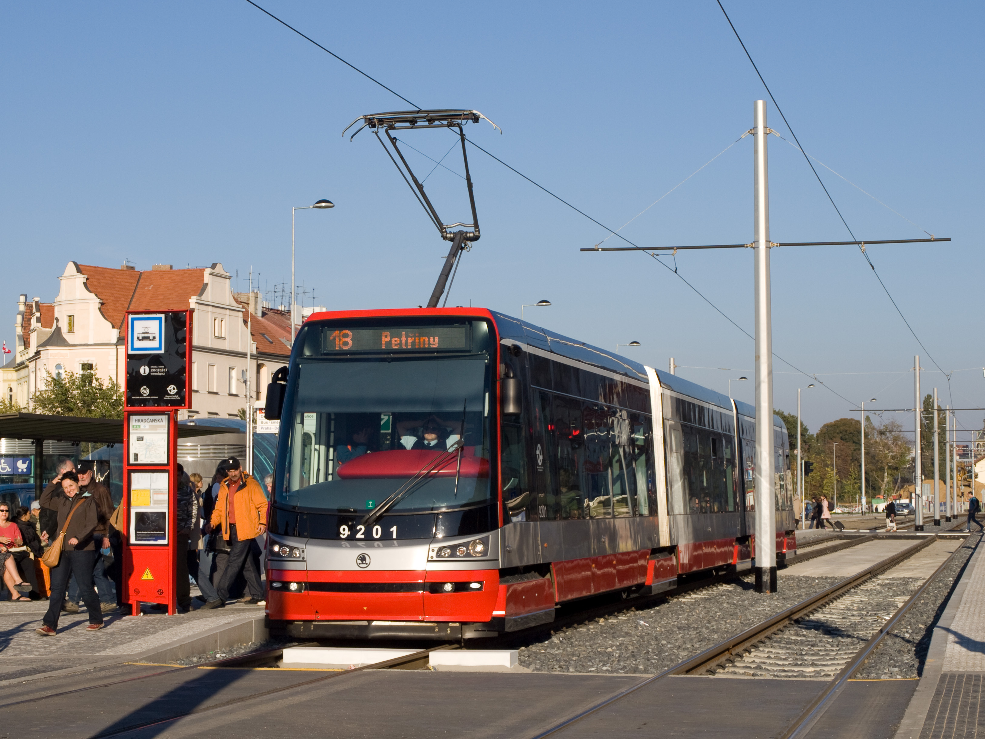 Škoda 15T in tram stop Hradčanská, Prague